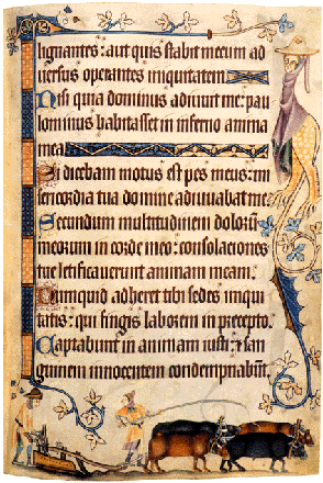 Folio 170r from the 14th century Luttrell Psalter, showing "drolleries." At the bottom is a plowman. More pages from the Luttrell Psalter can be viewed at the British Library online gallery at: Category:Illuminated manuscript images